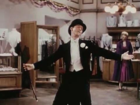 Bobby Van in Small Town Girl - trailer (cropped screenshot)